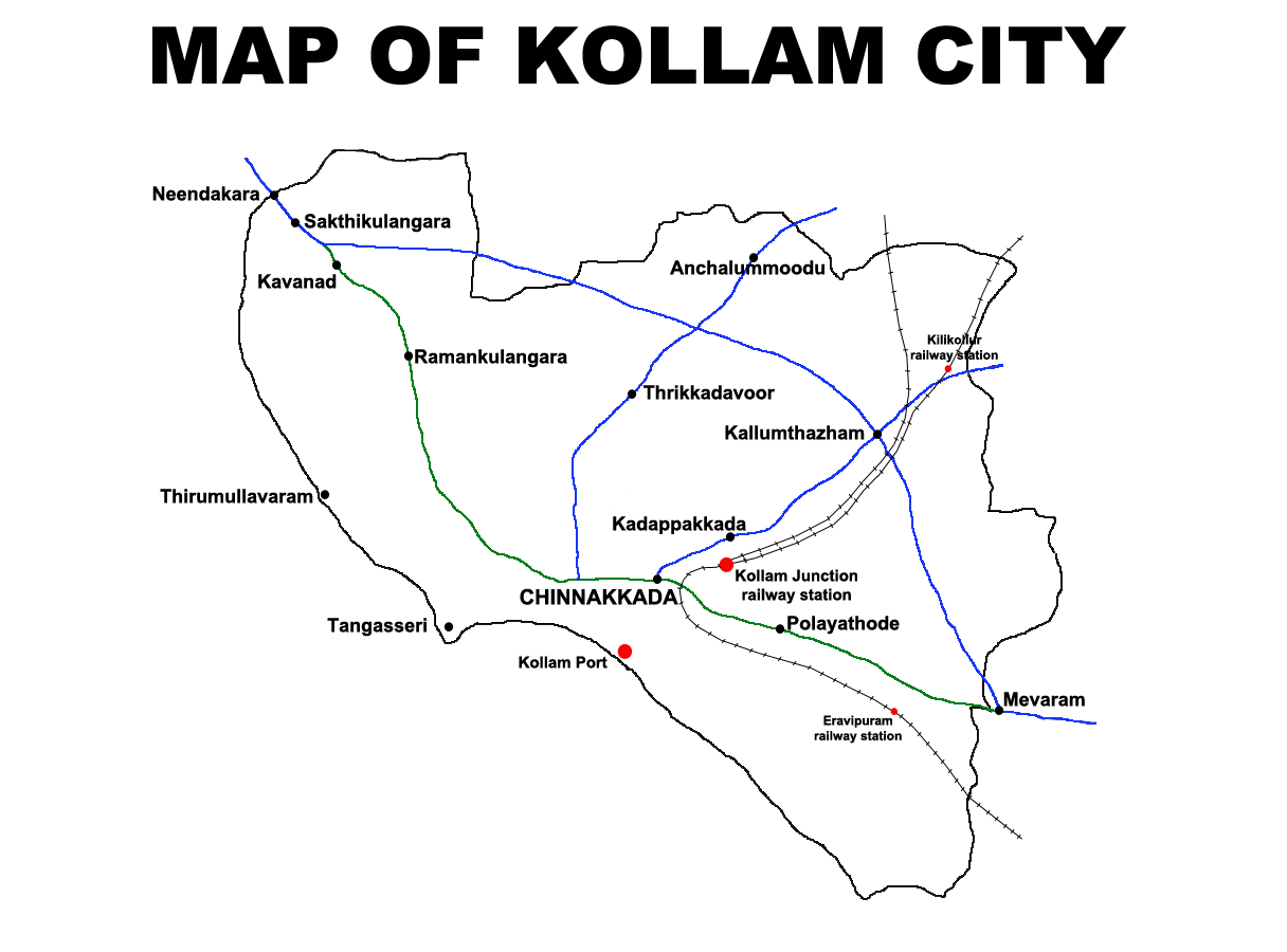 Map of Kollam Municipal Corporation(City of Quilon)